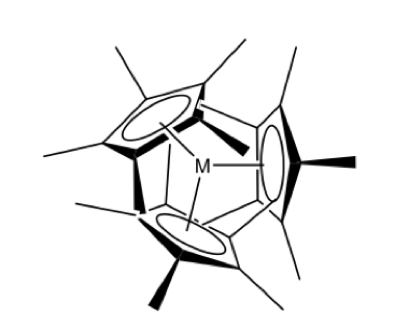 Tris(pentamethylcyclopentadienyl)